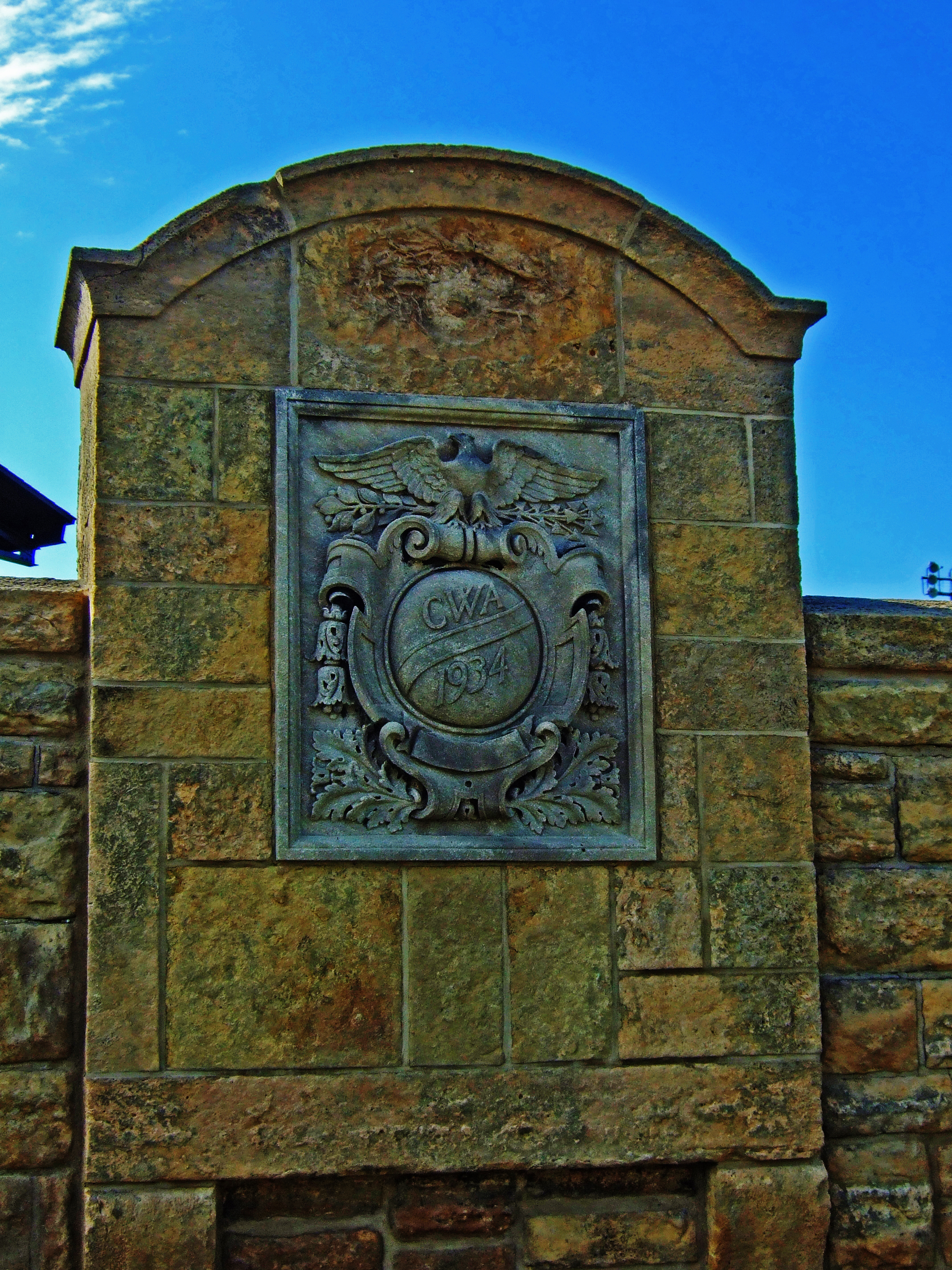 Civil Works Administration marker (1934) at Breese Stevens Field in Madison, Wisconsin.